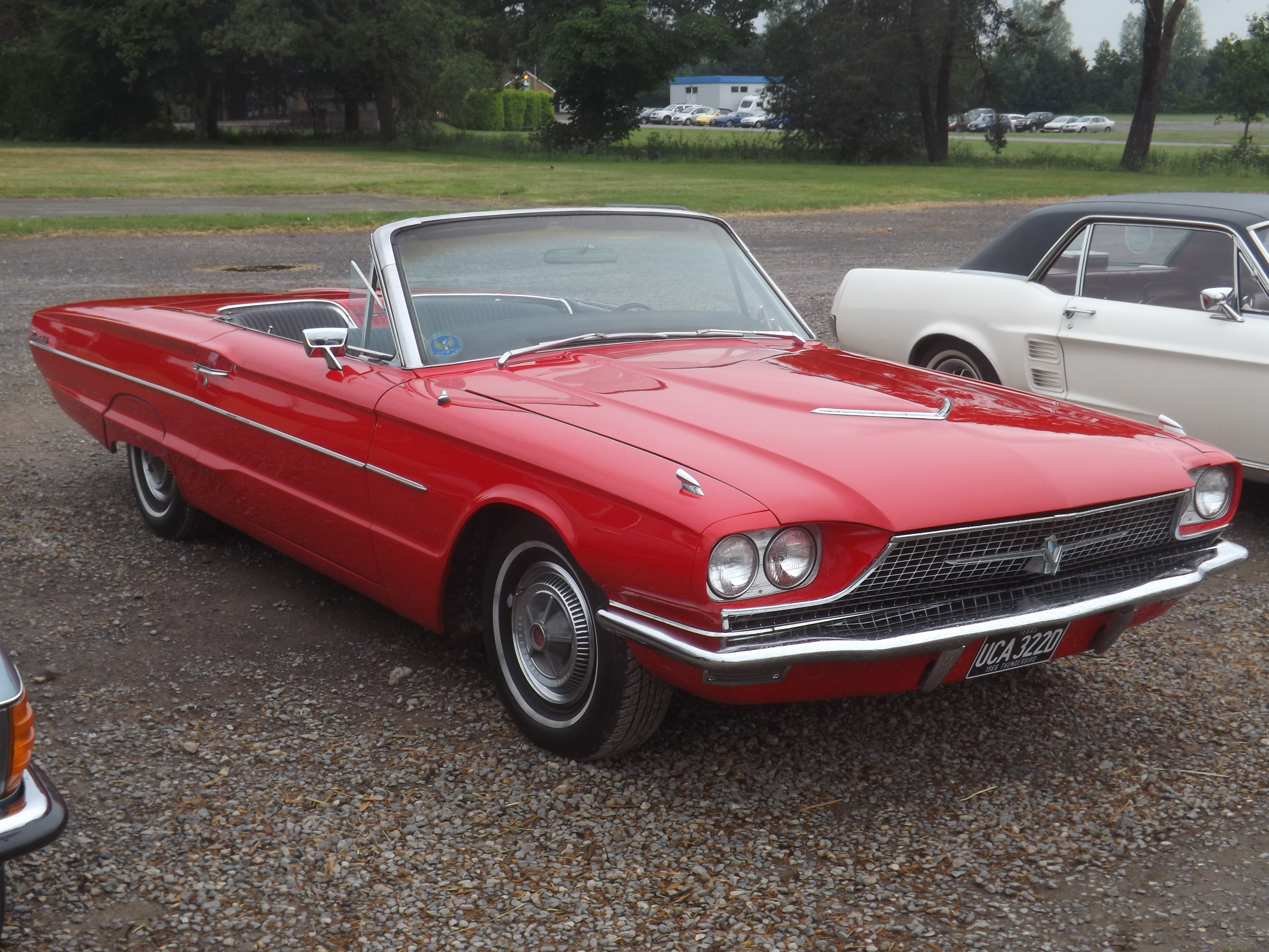 Bristol Classic Car Show, Royal Bath & West Showground, 13 June 2015